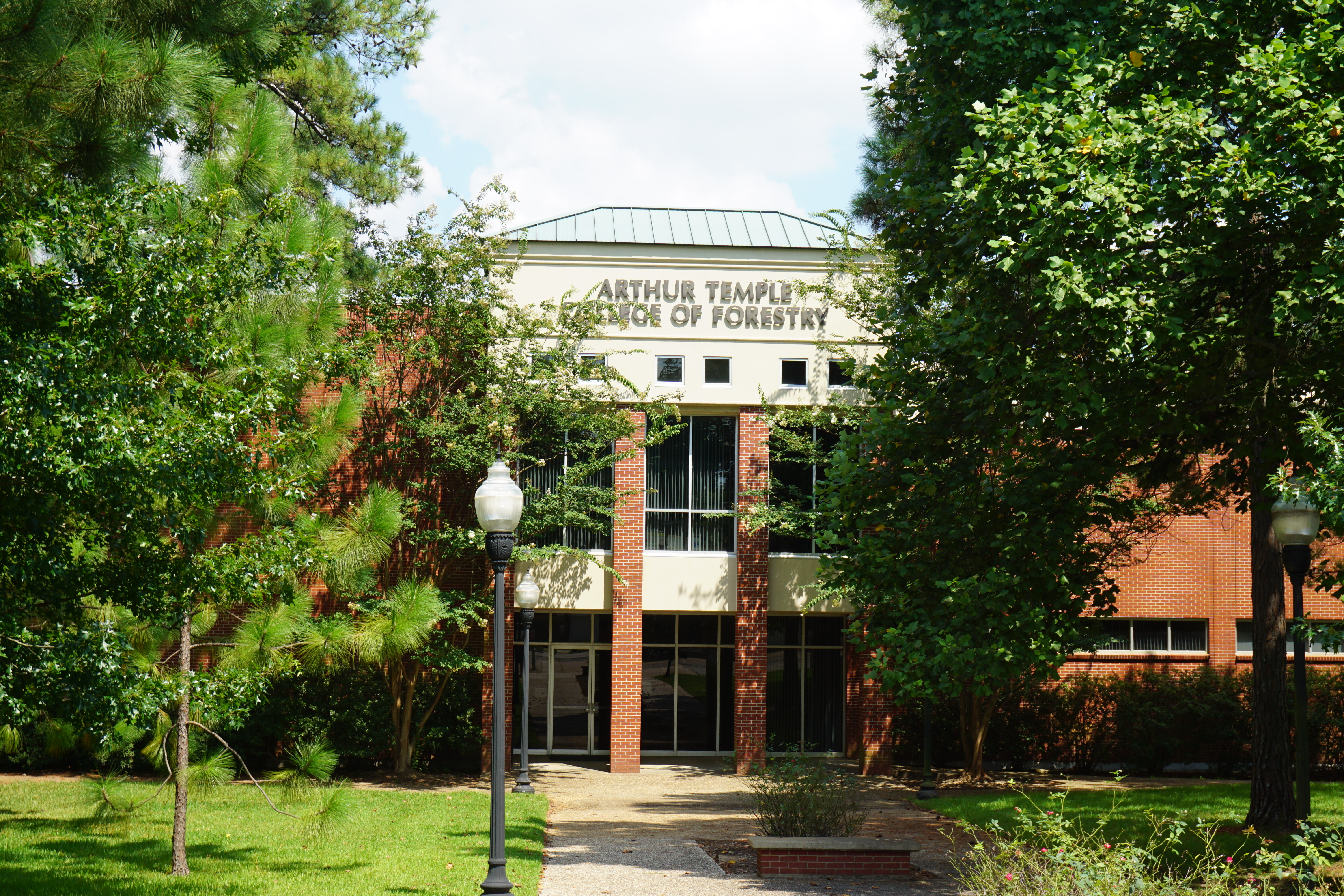 The Arthur Temple College of Forestry and Agriculture building on the campus of Stephen F. Austin State University in Nacogdoches, Texas (United States).